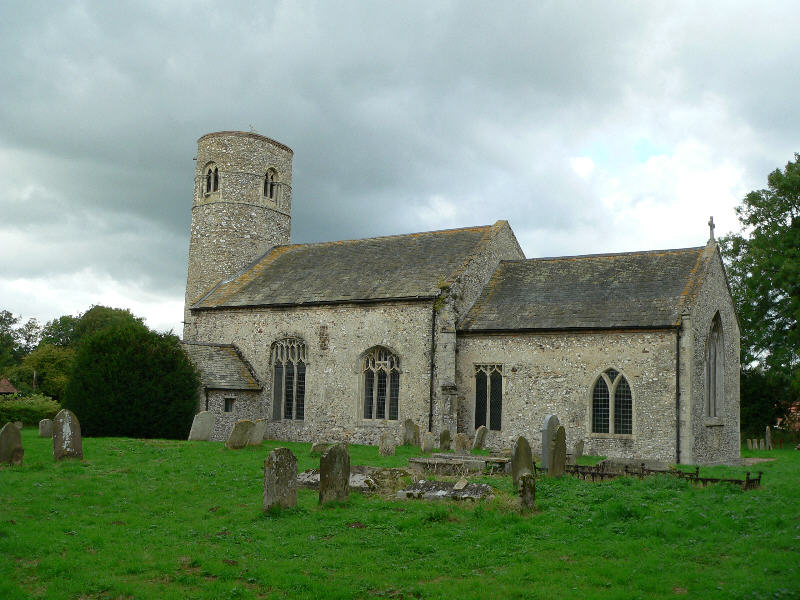 Gayton Thorpe St. Mary